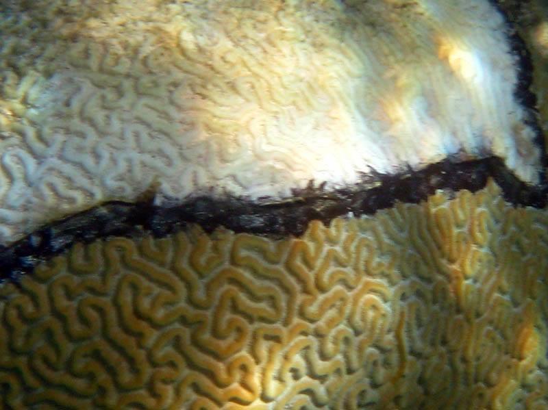 Diseased brain coral, Caribbean Sea, Bahía de la Chiva, Island of Vieques, Puerto Rico 'Black-band desease' caused by microorganisms like Phormidium corallyticum, the cyanobacterium Spirulina, and others acting together. The white part is dead skeleton only.